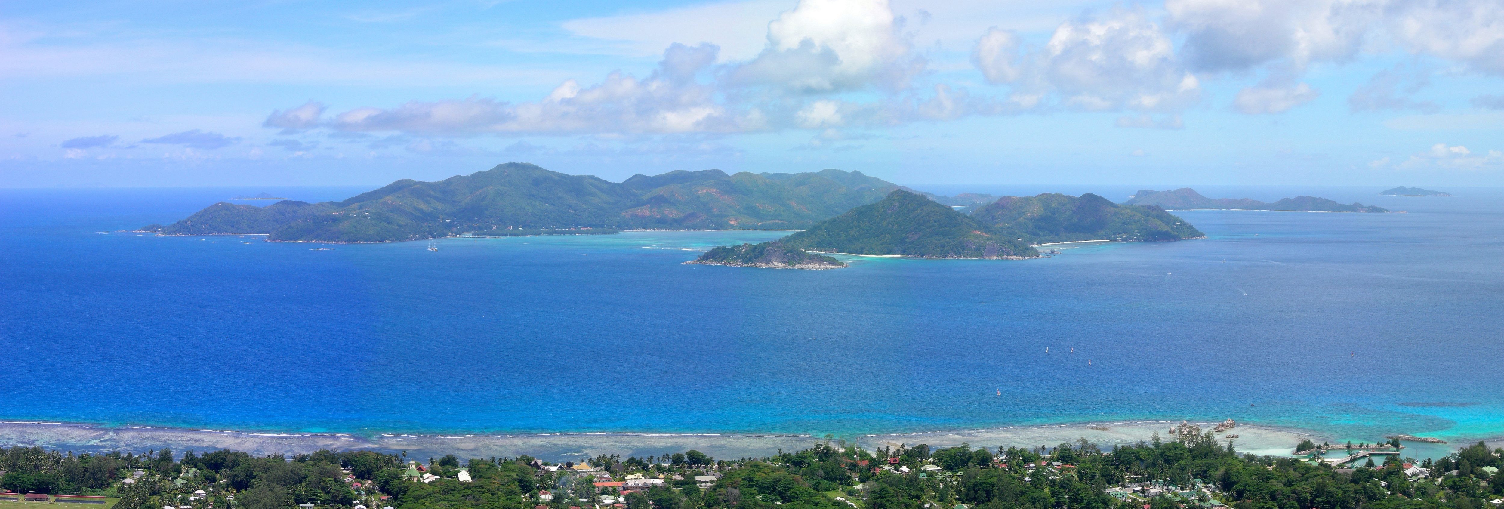 view of the second largest island of the Seychelles, Praslin, from Nid d'Aigle (333 m), the highest point of La Digue, Seychelles, also shown is Round Island in the front and Curieuse Island in the back.